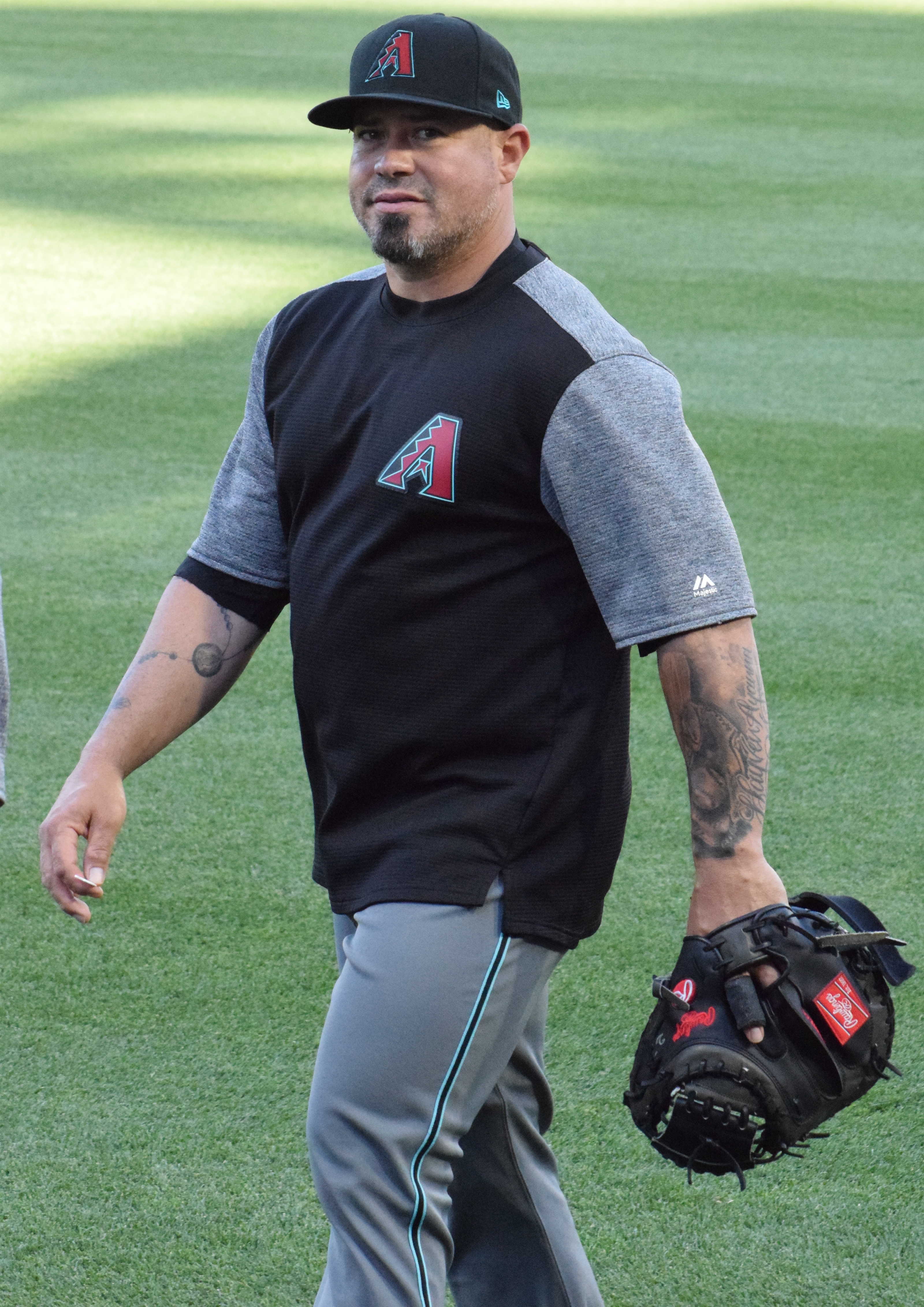 Humberto Quintero